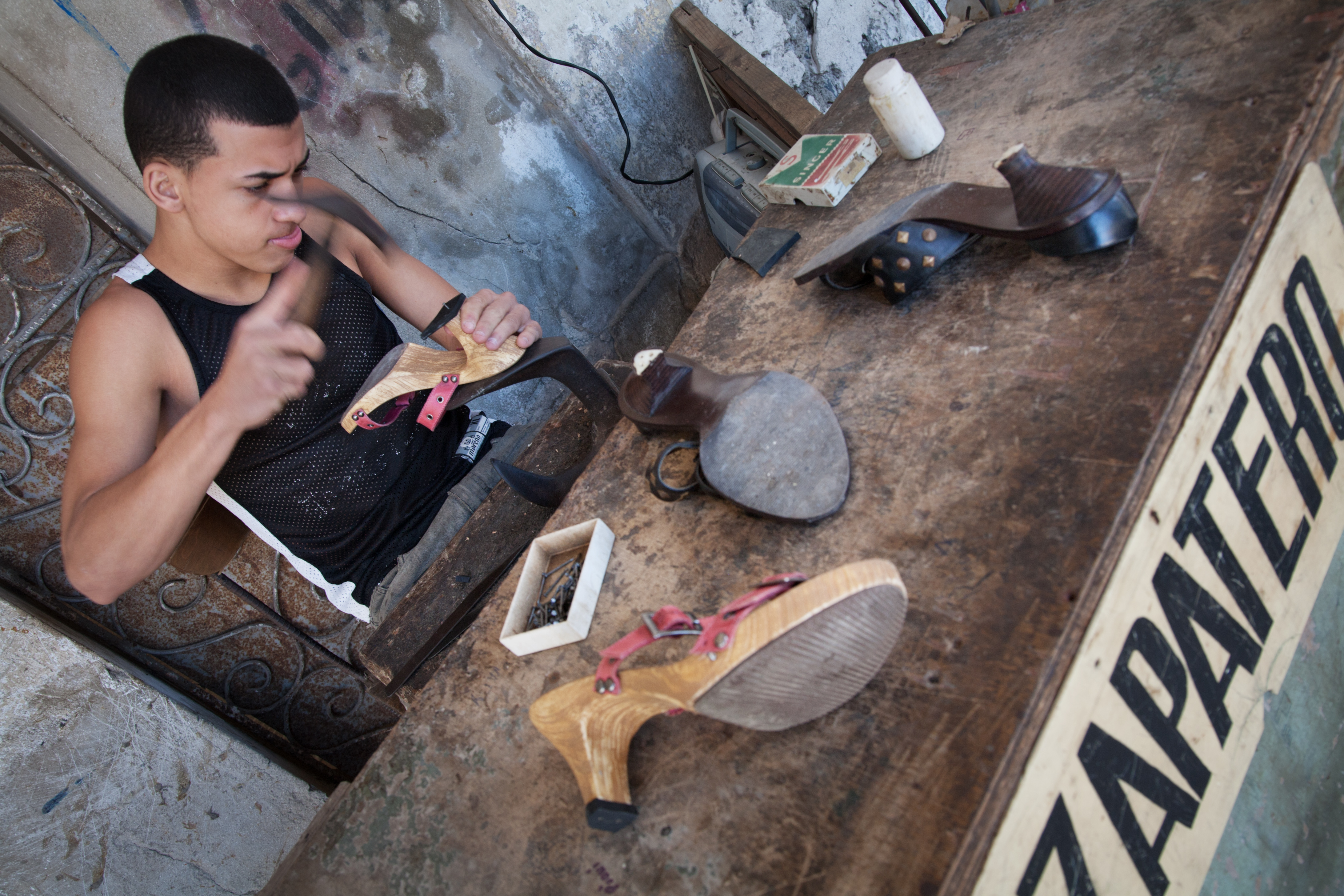 Street shoe repair shop. Havana (La Habana), Cuba